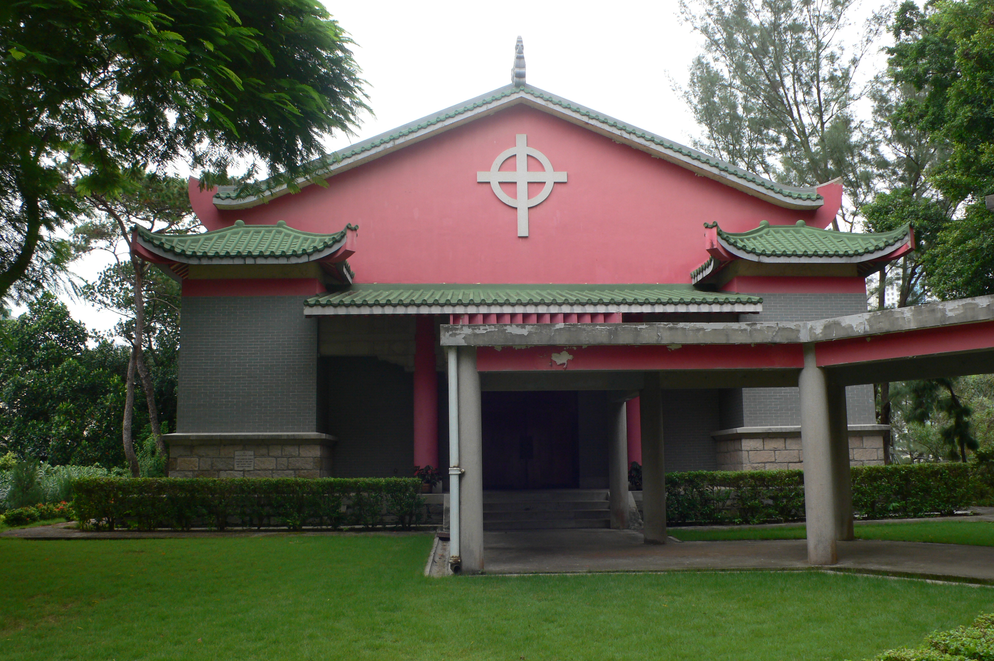 The Chapel in Holy Spirit Seminary, Hong Kong